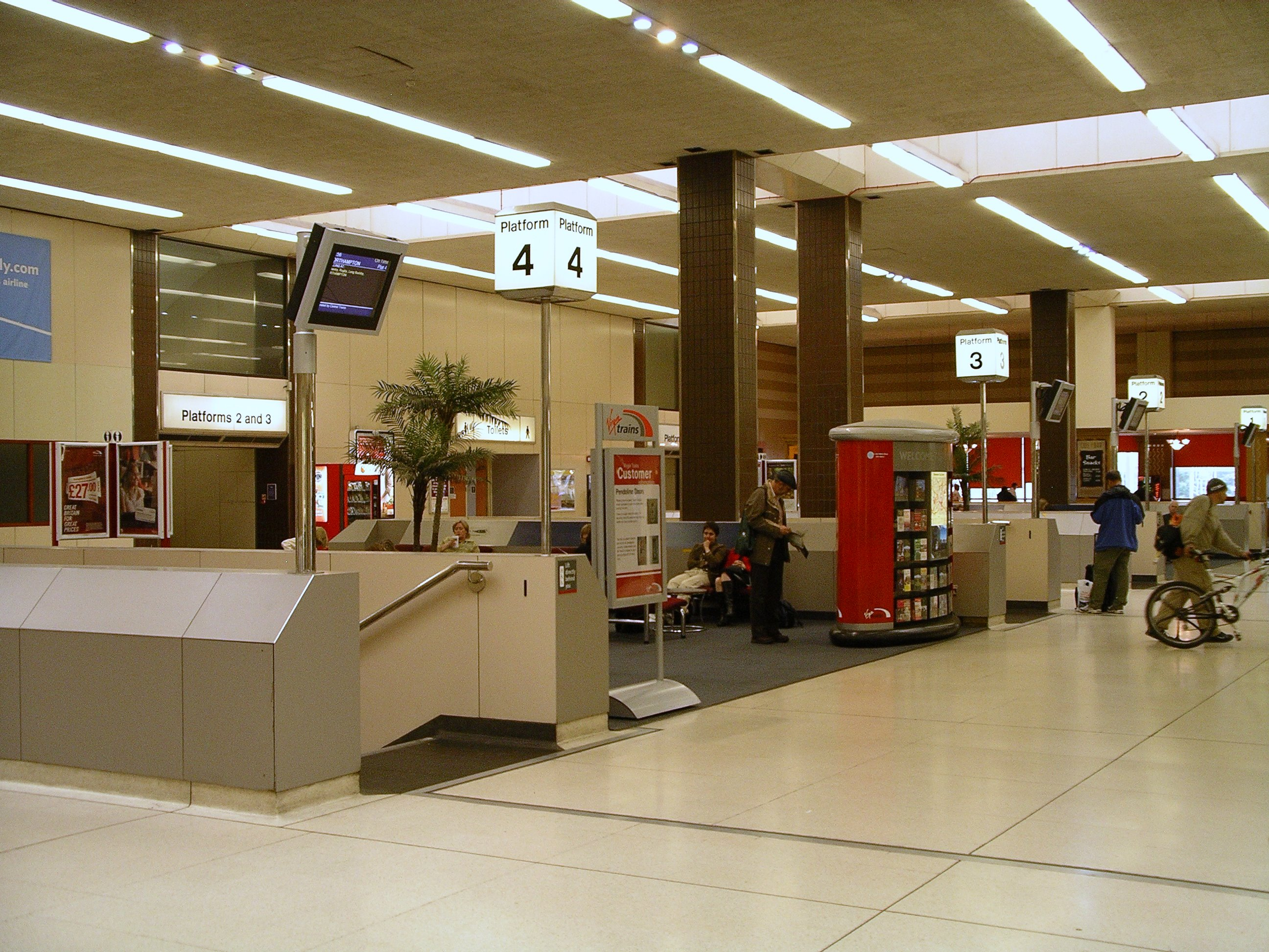 photo of the "inner" concourse at the Birmingham International railway station, Birmingham, England.